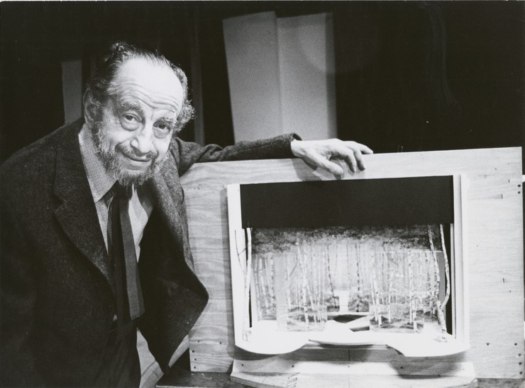 Boris Aronson and set design during rehearsals for the stage production A Little Night Music - publicity still (cropped)